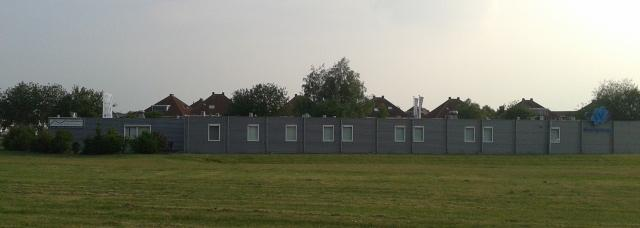 Canisius Wilhelmina Ziekenhuis in Nijmegen, Waalsprong facility.